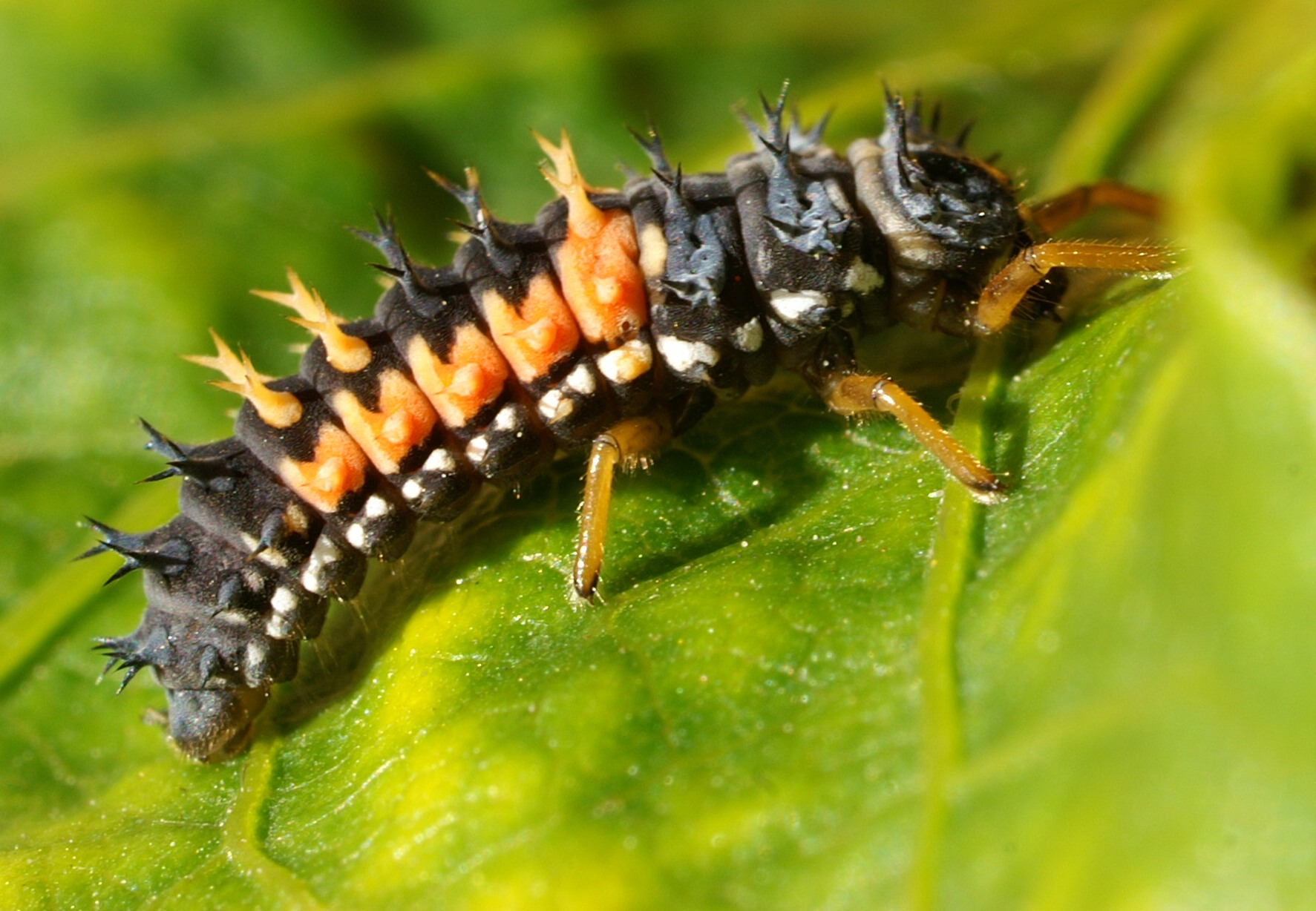 Larva of Harmonia axyridis.